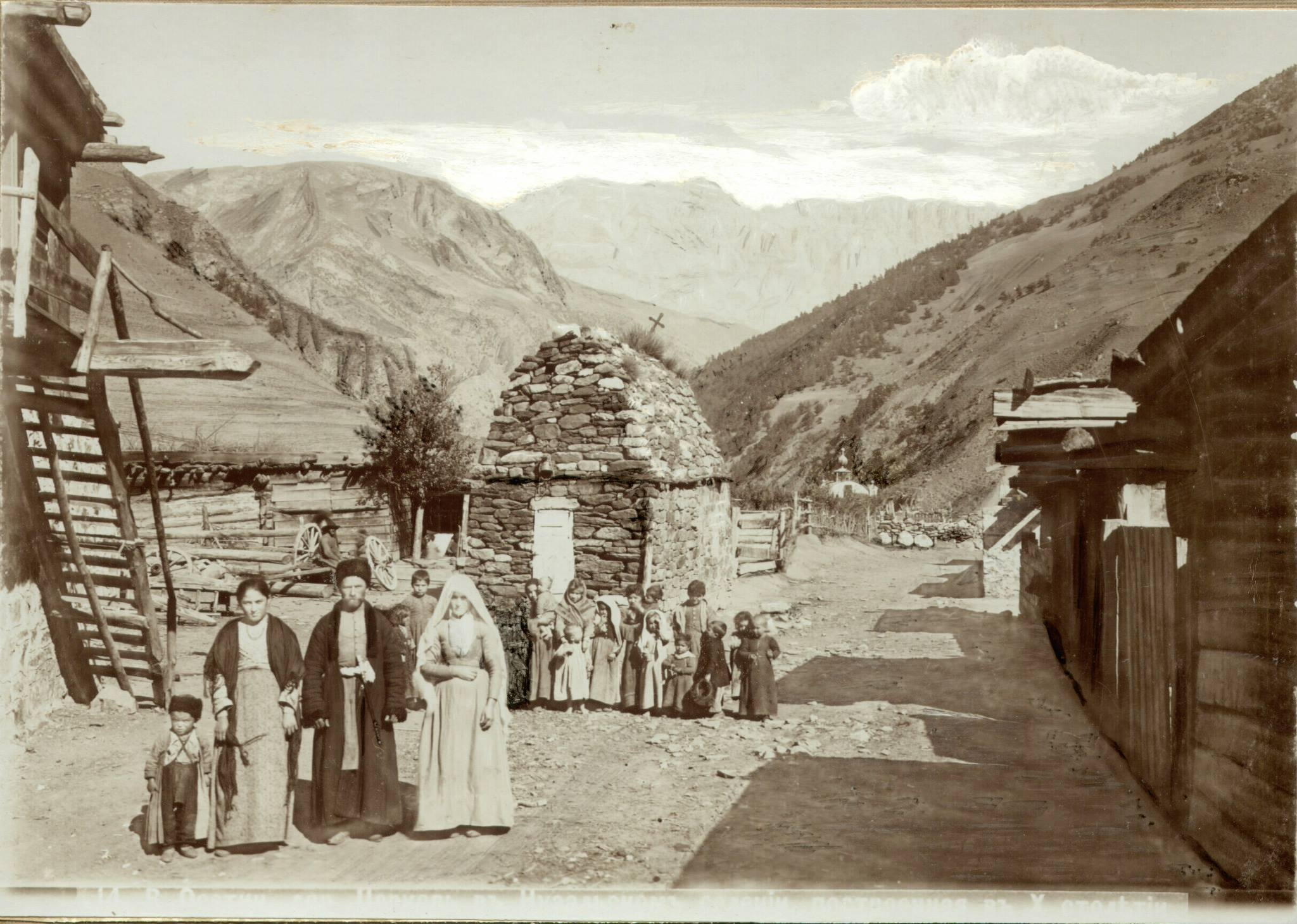 Gr. Raev. № 14. Village Nuzal